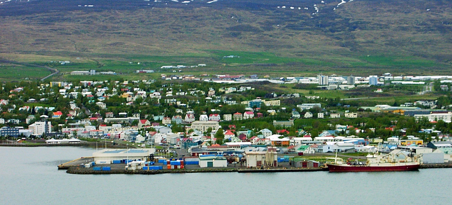 The harbor of the town Akureyki in Iceland